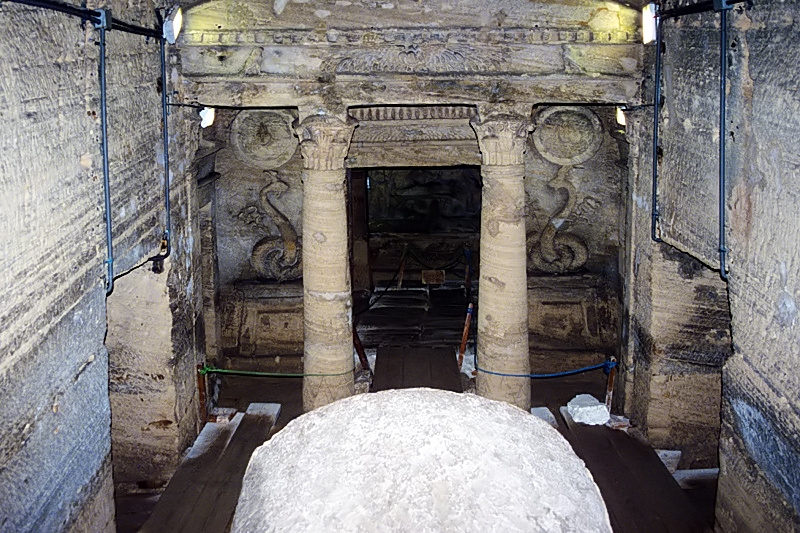 Chapel entrance, Kom el-Shuqafa, Alexandria, Egypt